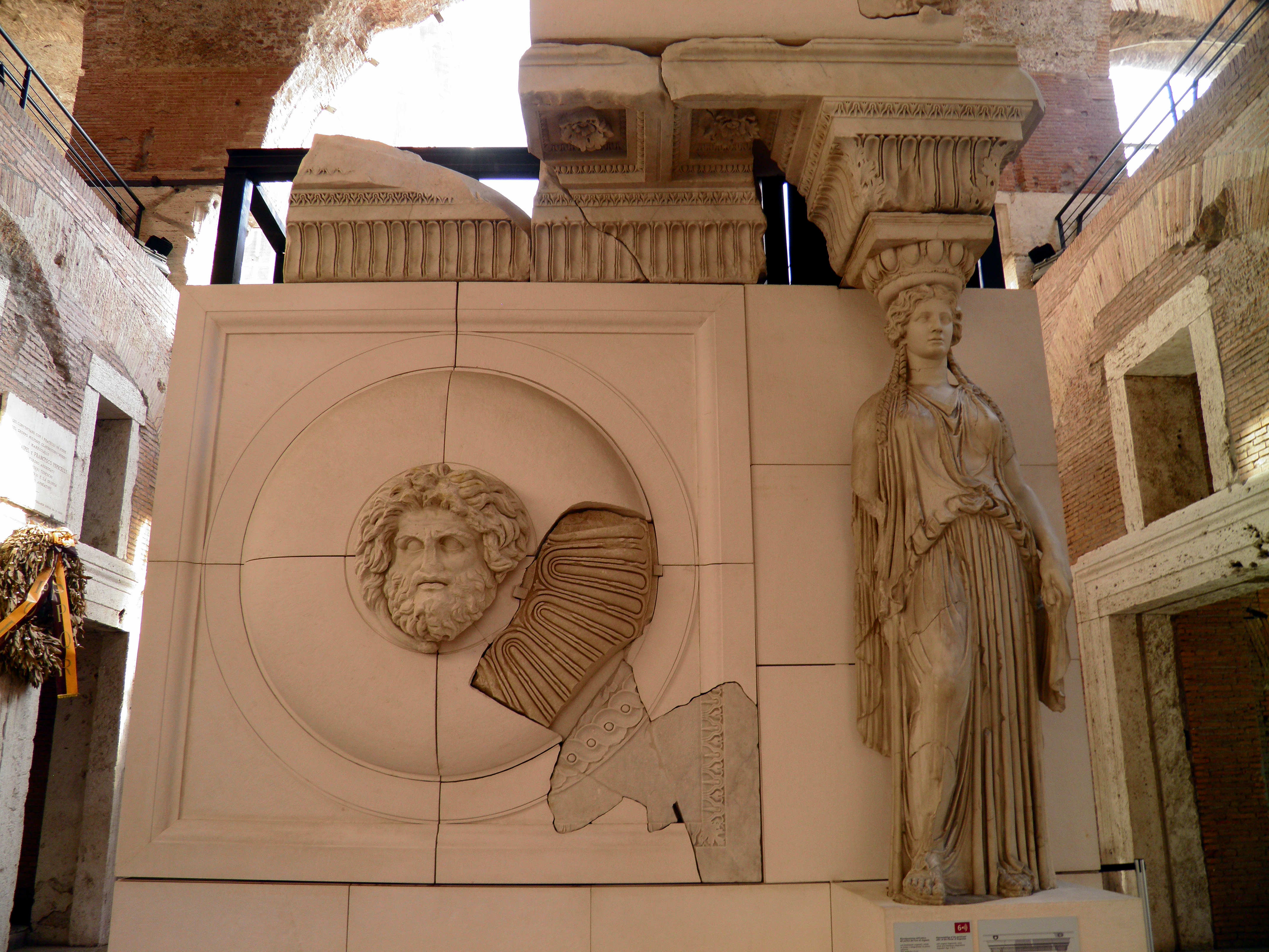 Reassembling of the porticoes' attic of the Forum of Augustus with original fragments, resin casts and limestone integrations, Augustan age, Museo dei Fori Imperiali, Rome